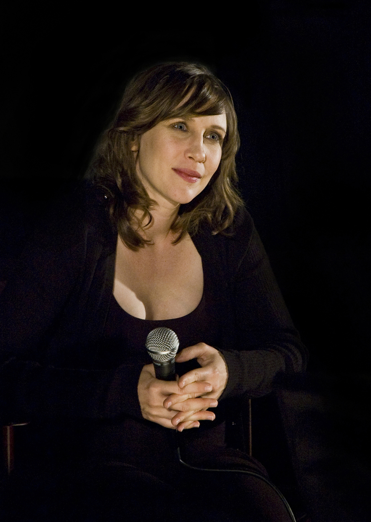 Vera Ann Farmiga (born August 6, 1973) is an American actress. This photo was taken on November 6, 2008 during a Question & Answer session following a screening of the movie "The Boy in the Striped Pyjamas" in Morristown, New Jersey.